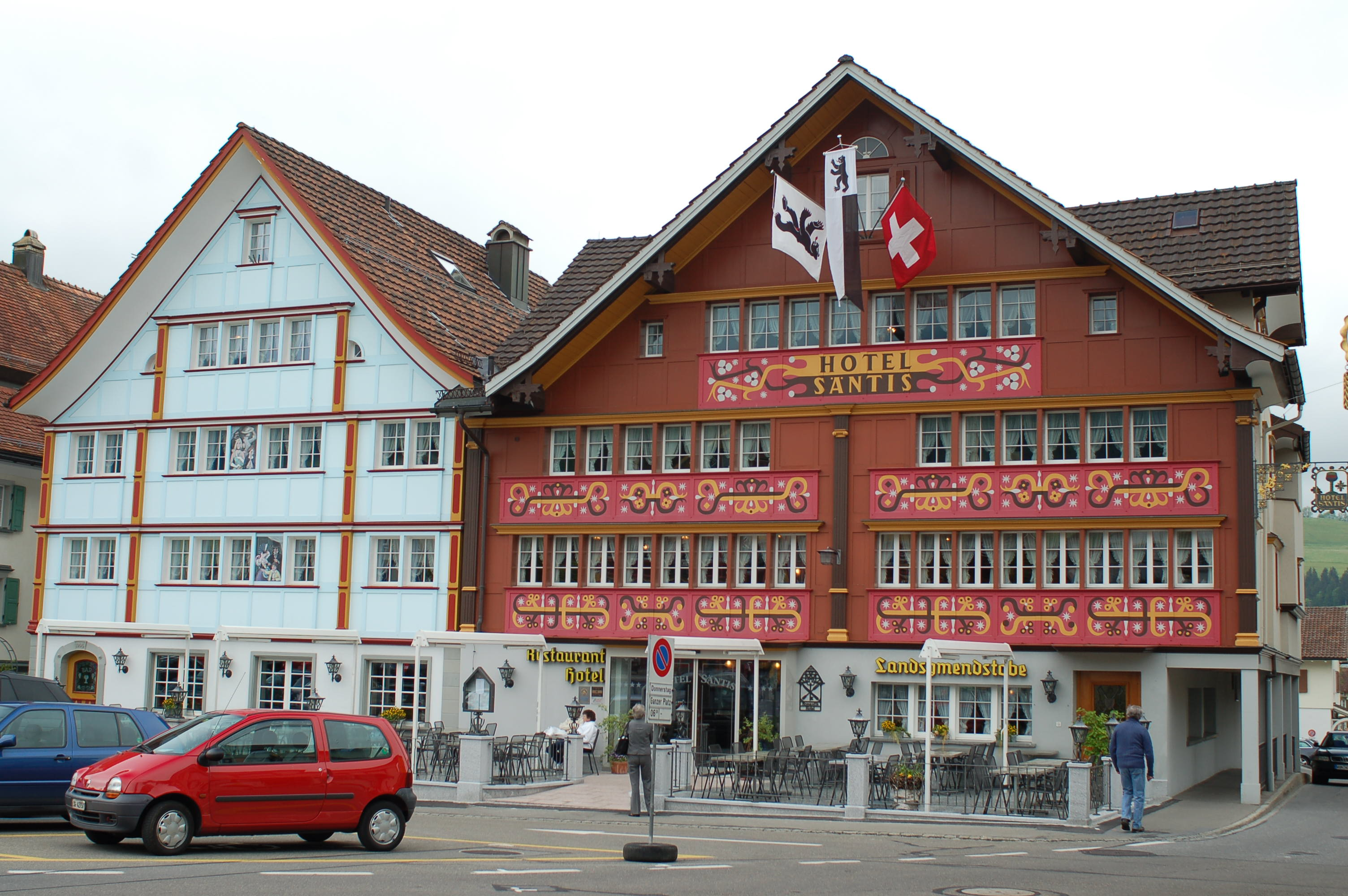 Town of Appenzell, capital of the canton of Appenzell Innerrhoden in Switzerland